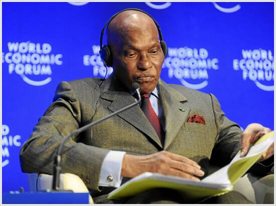 DAVOS-KLOSTERS/SWITZERLAND, 30JAN09 - Abdoulaye Wade, President of Senegal, studies documents during the session 'The State of Africa' at the Annual Meeting 2009 of the World Economic Forum in Davos, Switzerland, January 30, 2009..